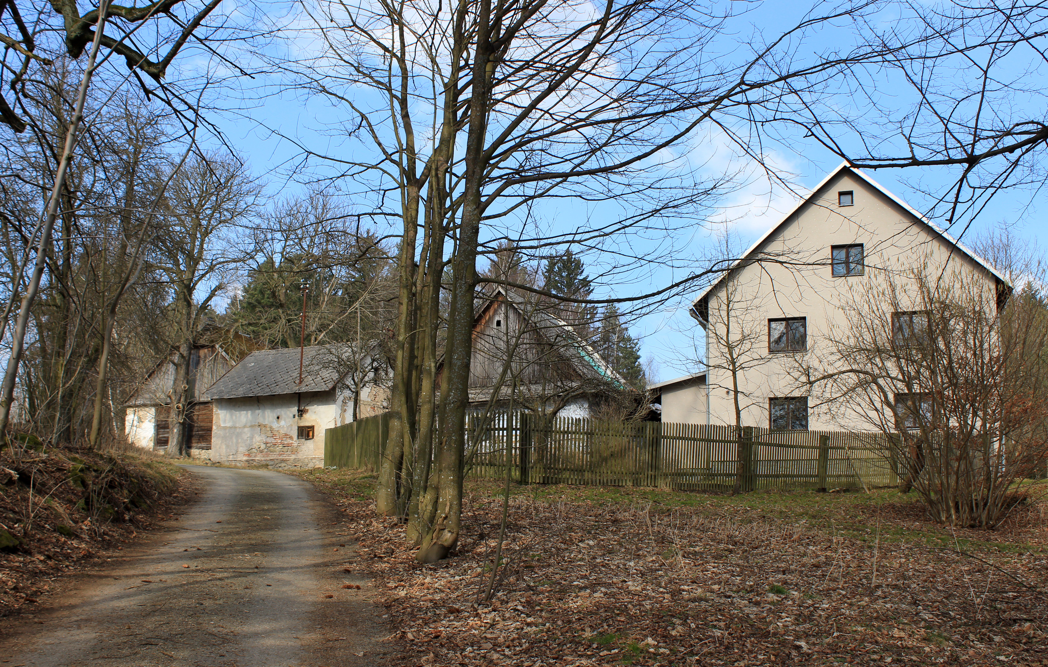 Jasné Pole, part of Všeradov village, Czech Republic.